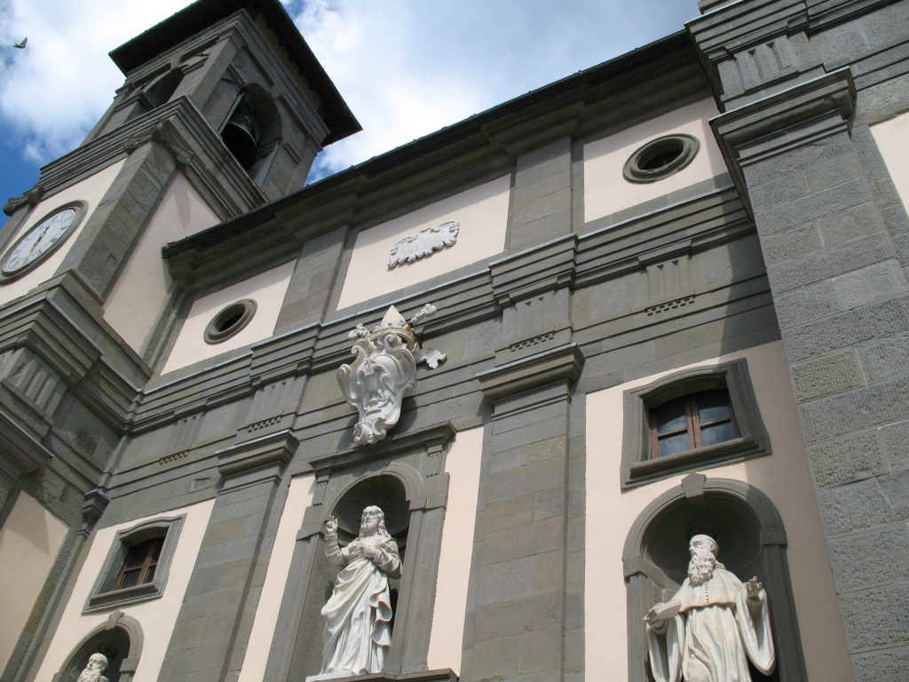 The front of the church in Eremo di Camaldoli.